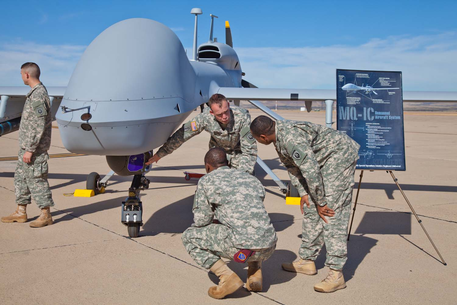 Soldiers from E Company, 160th Special Operations Aviation Regiment (Airborne), explain the capabilities of the MQ-1C Gray Eagle Unmanned Aircraft System at their activation ceremony Nov. 19, 2013.